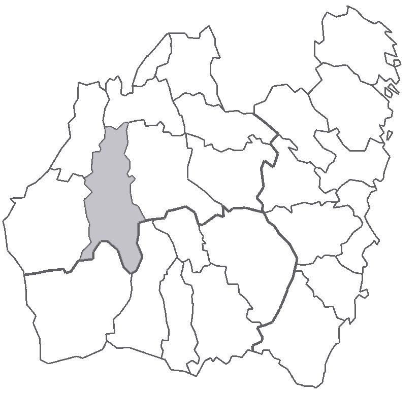 Map describing the location of Östbo Hundred in the province of Småland, Sweden.